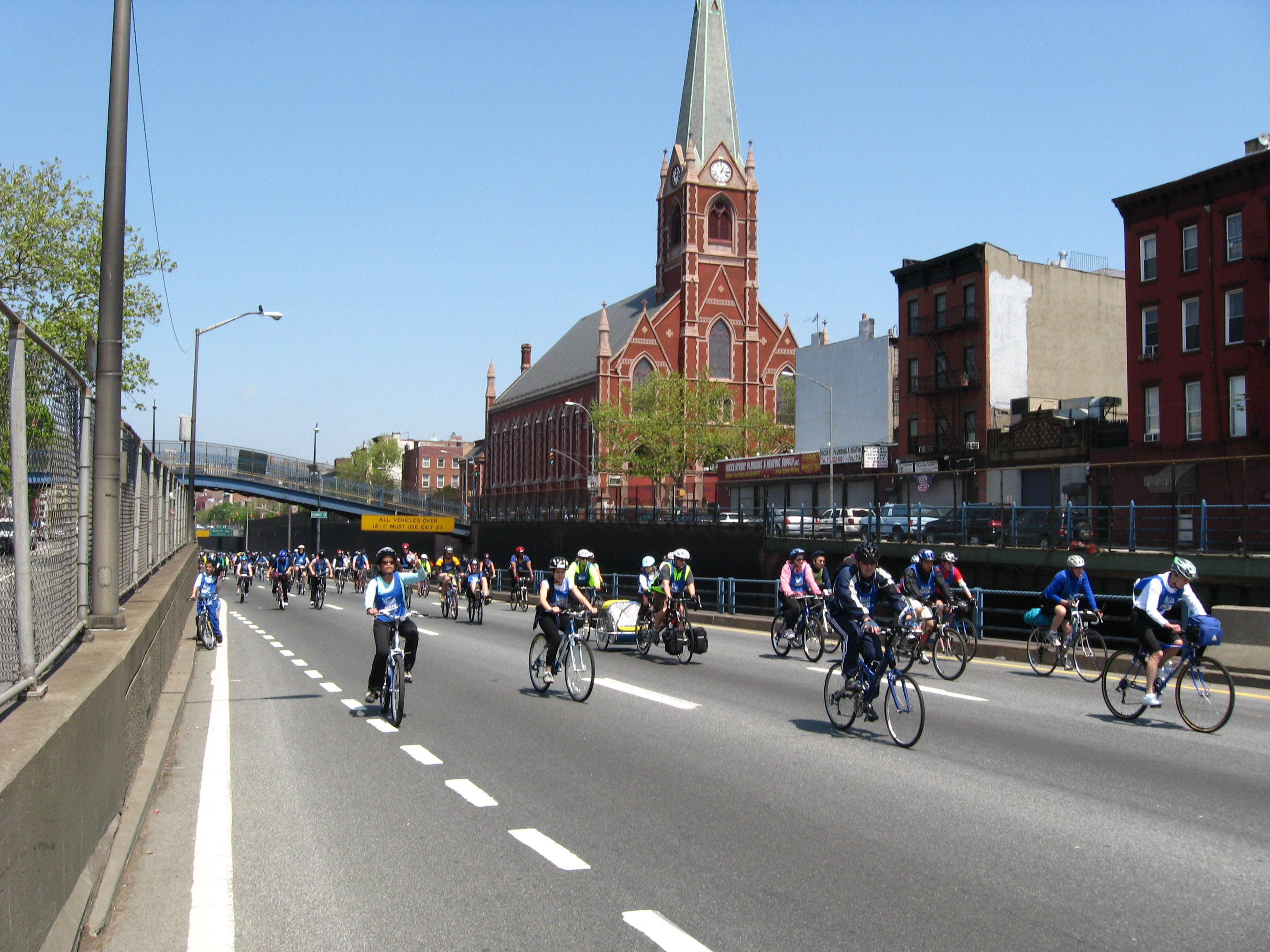 Looking northeast on a mostly sunny springtime early afternoon as Five Boro Bike Tour climbs under Summit Avenue footbridge, past St Stephens Catholic church, and out of Brooklyn Queens Expressway trench in Carroll Gardens, Brooklyn.